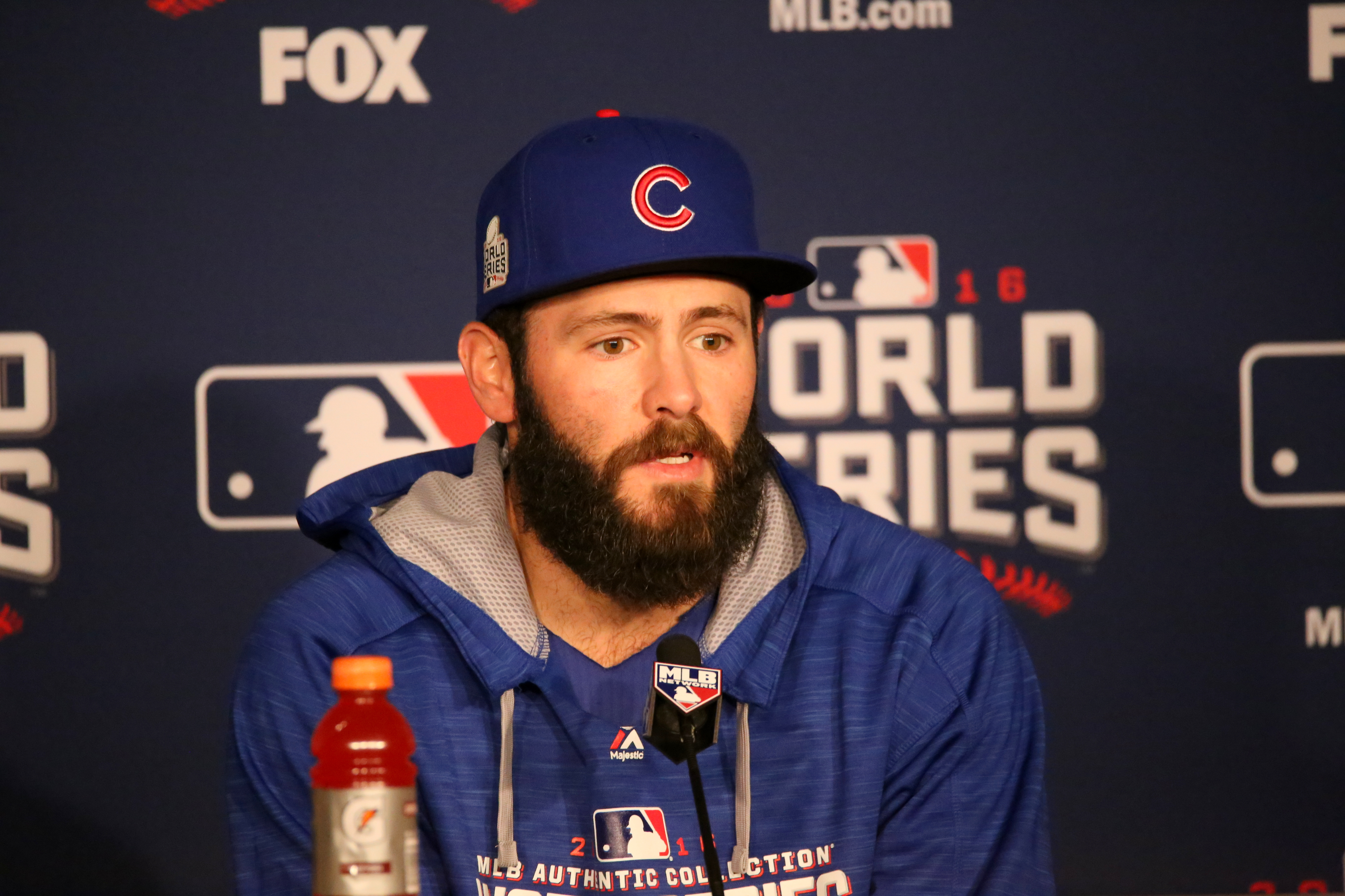 Cubs starter Jake Arrieta talks to the media before #WorldSeries Game 1.